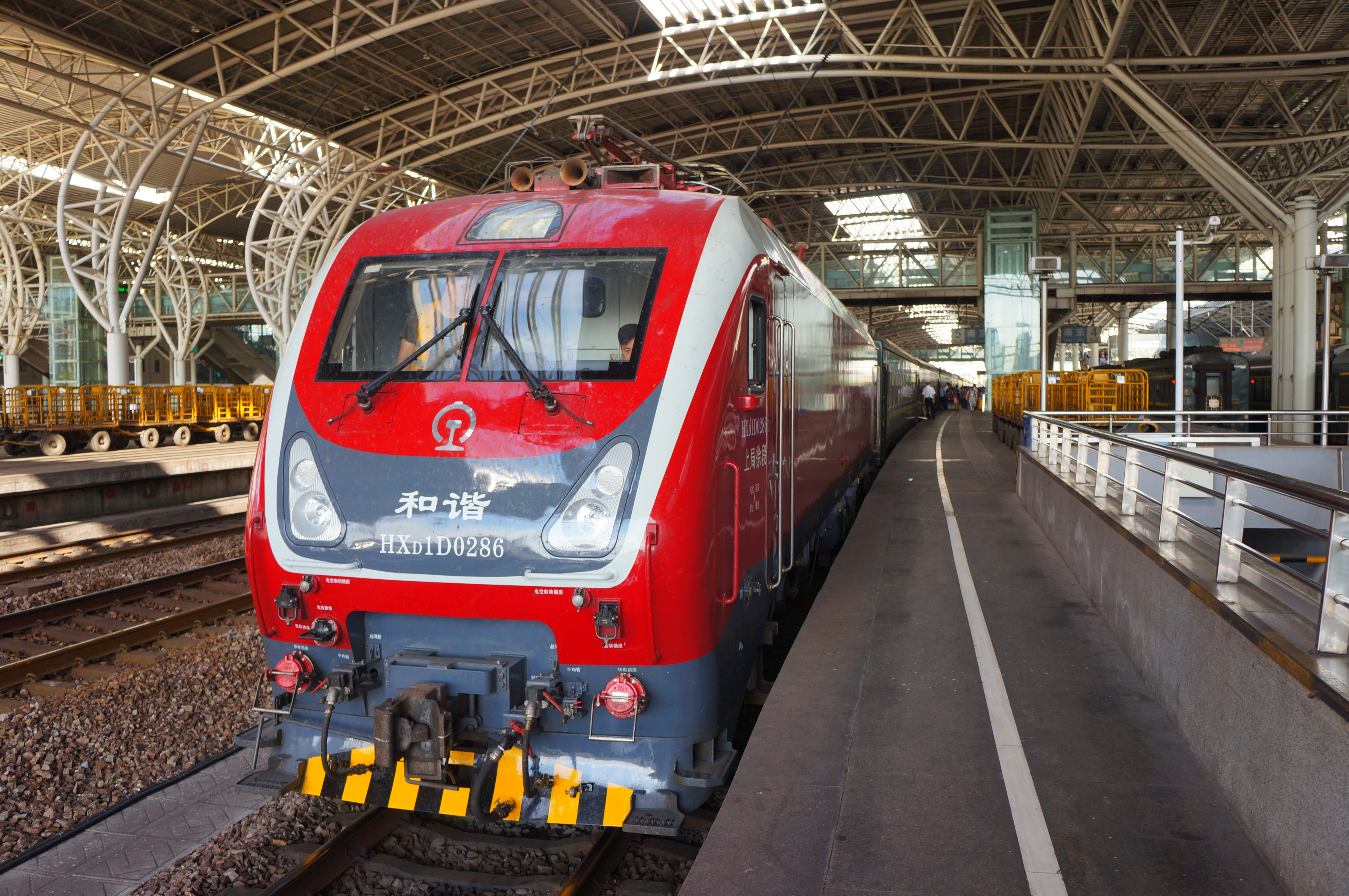 201806 HXD1D-0286 hauls Z366 at Nanjing Station